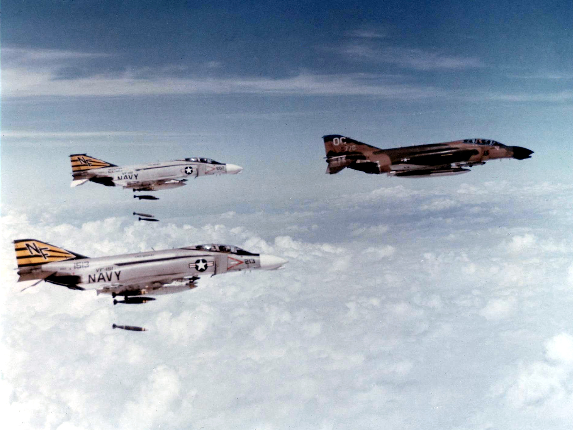 A LORAN-equipped U.S. Air Force McDonnell F-4D-32-MC Phantom II (s/n 66-8776) from the 13th Tactical Fighter Squadron, 432nd Tactical Reconnaissance Wing, leads two U.S. Navy F-4Bs (BuNo 151513, 152258) of Fighter Squadron VF-151 "Vigilantes" during a bombing mission over Vietnam. VF-151 was assigned to Carrier Air Wing 5 (CVW-5) aboard the aircraft carrier USS Midway (CVA-41) for a deployment to Vietnam from 16 April to 6 November 1971.